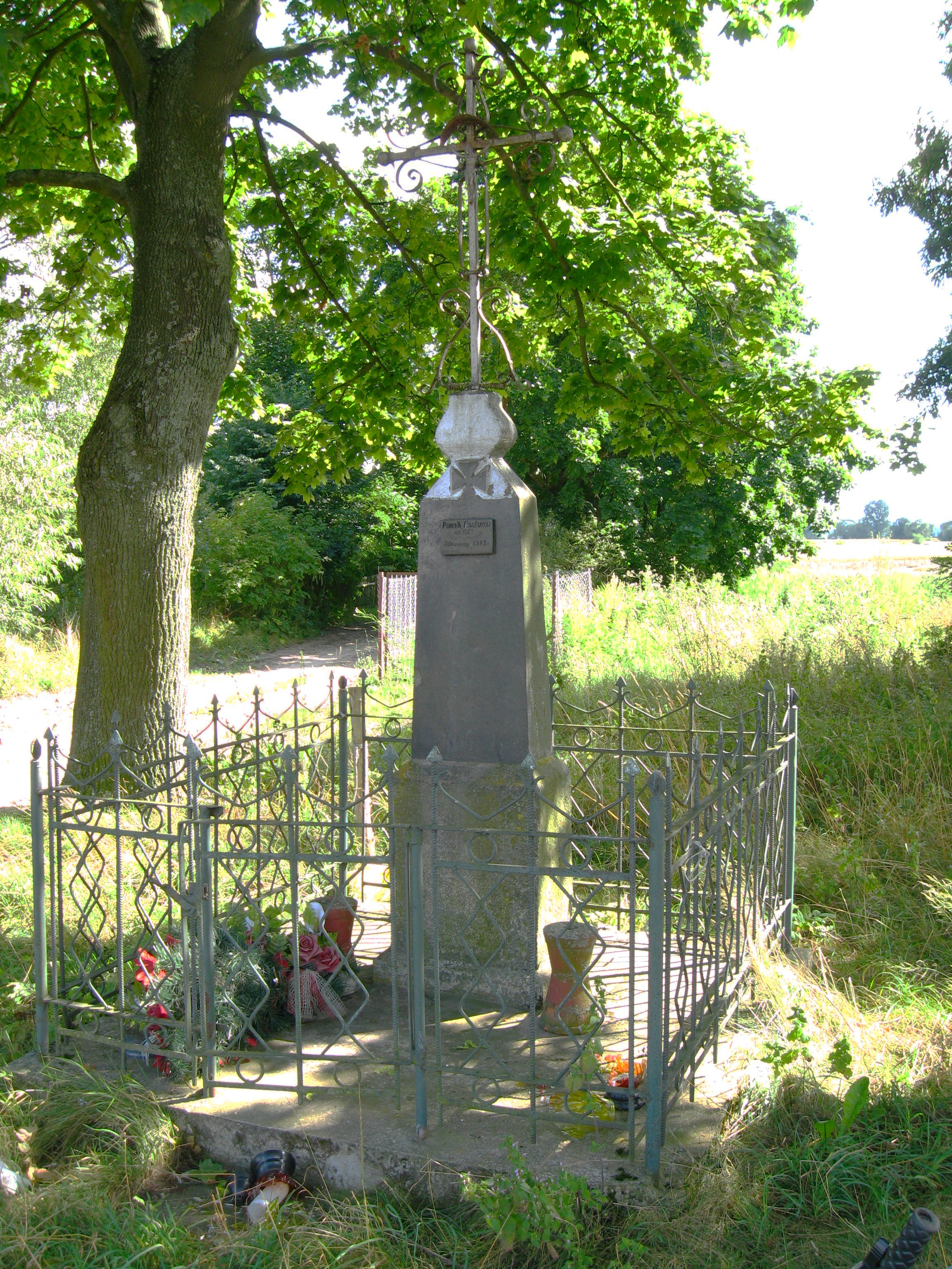 „Insurgents' Monument” from year 1863; renovated in 1982.